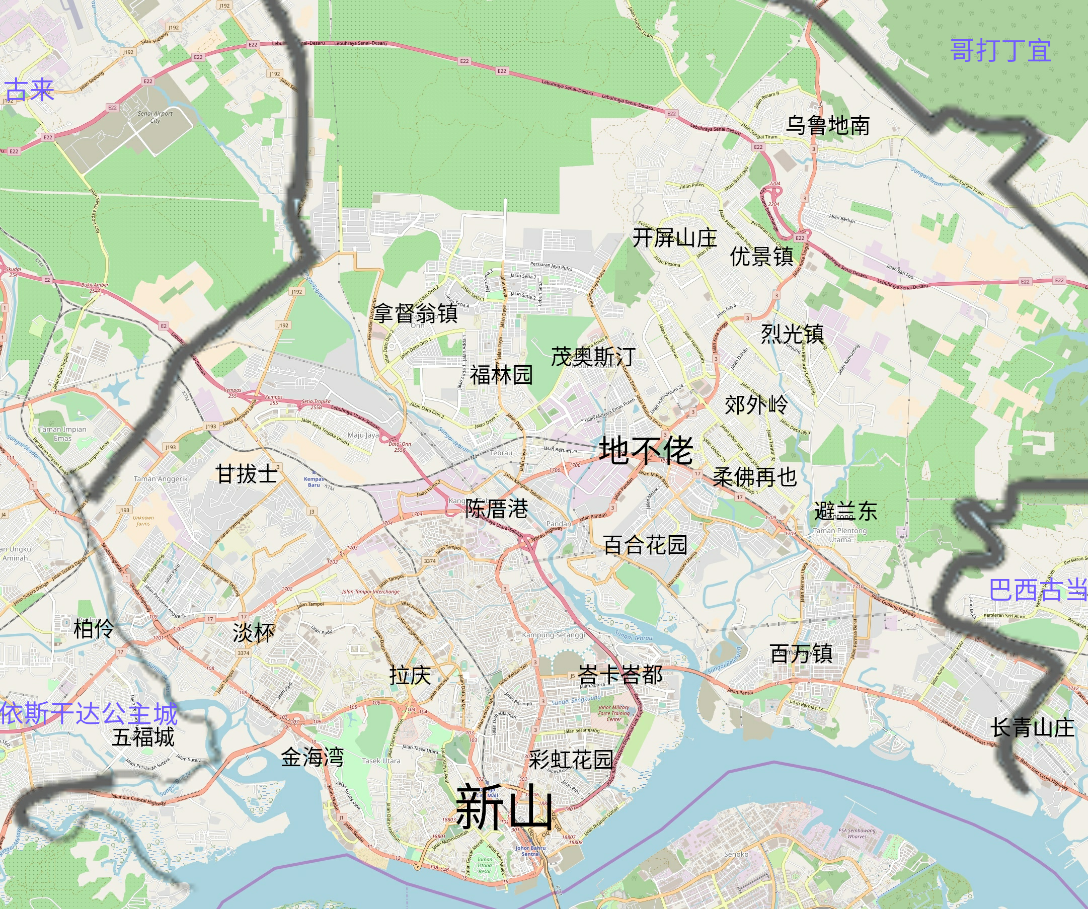 map of Johor Bahru. Background map provided by . This map may be incomplete, and may contain errors. Don't rely solely on it for navigation.